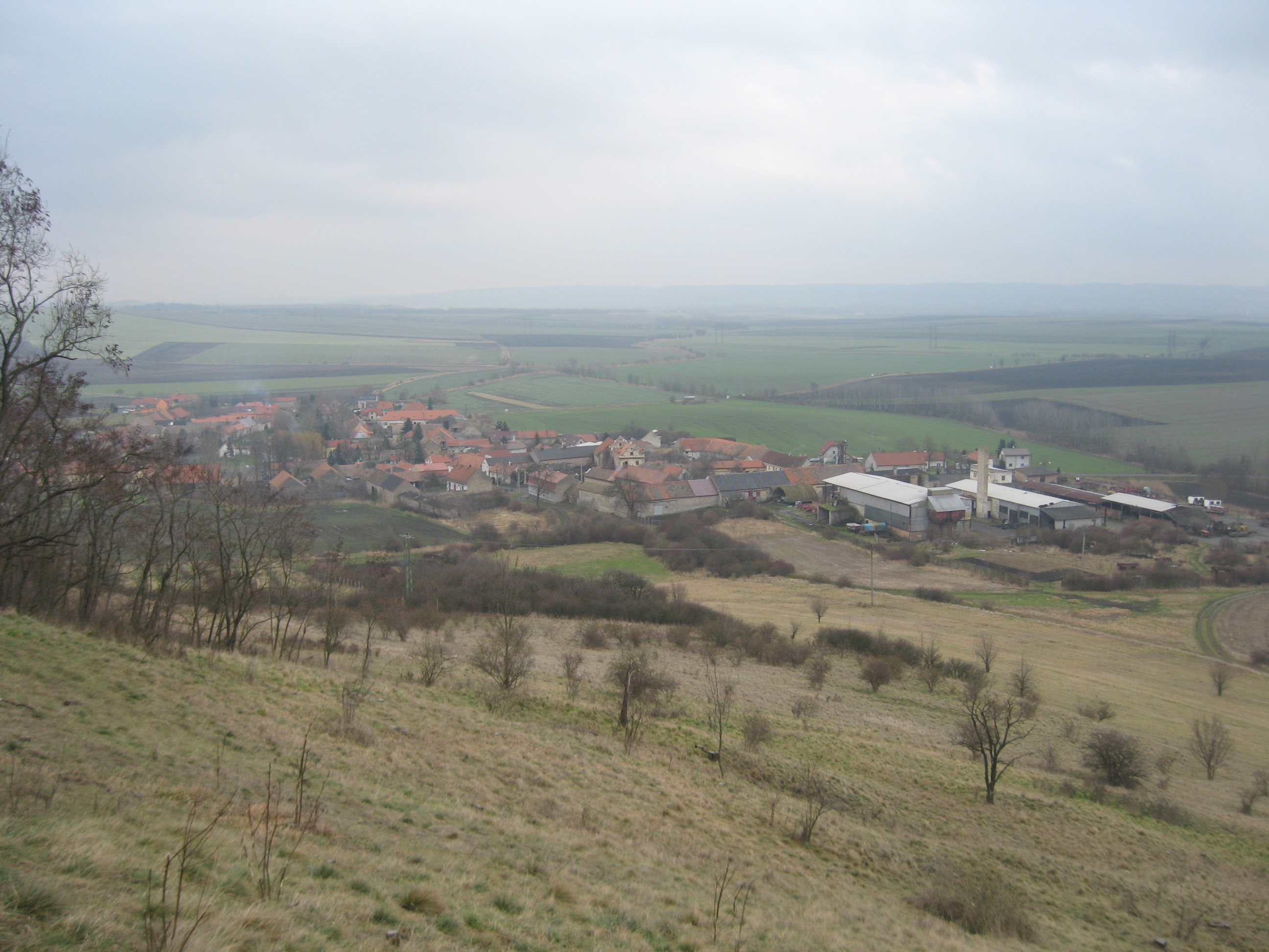 Třtěno village from the hill Syslík